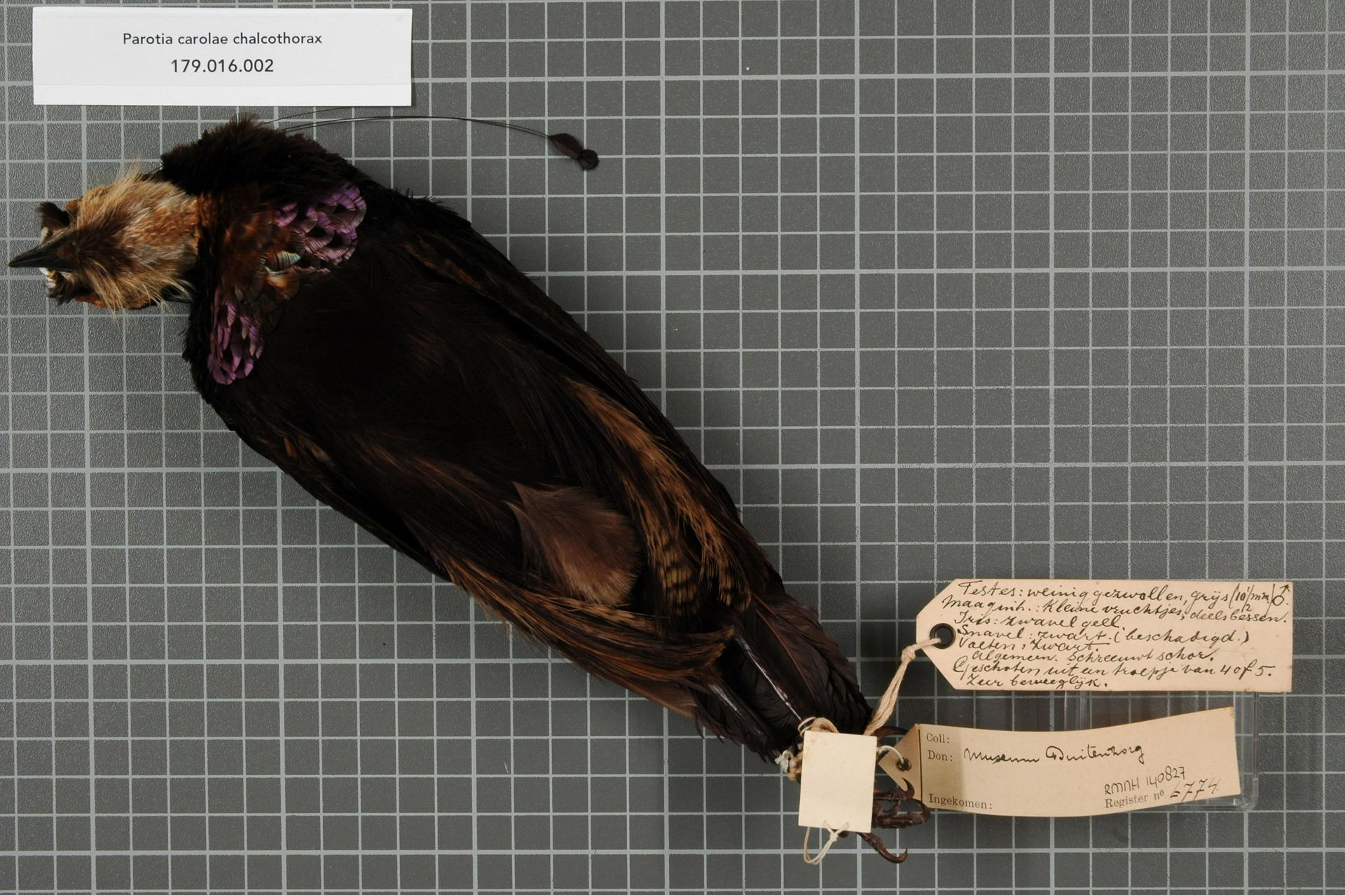 Parotia carolae chalcothorax Stresemann, 1934